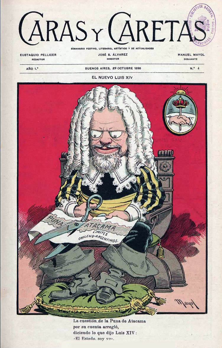 Caricature of then president of Argentina, Julio A. Roca, resembling Louis XV of France.